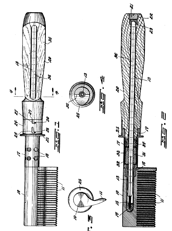 An illustration from Walter Sammon's 1920 patent for a hot comb